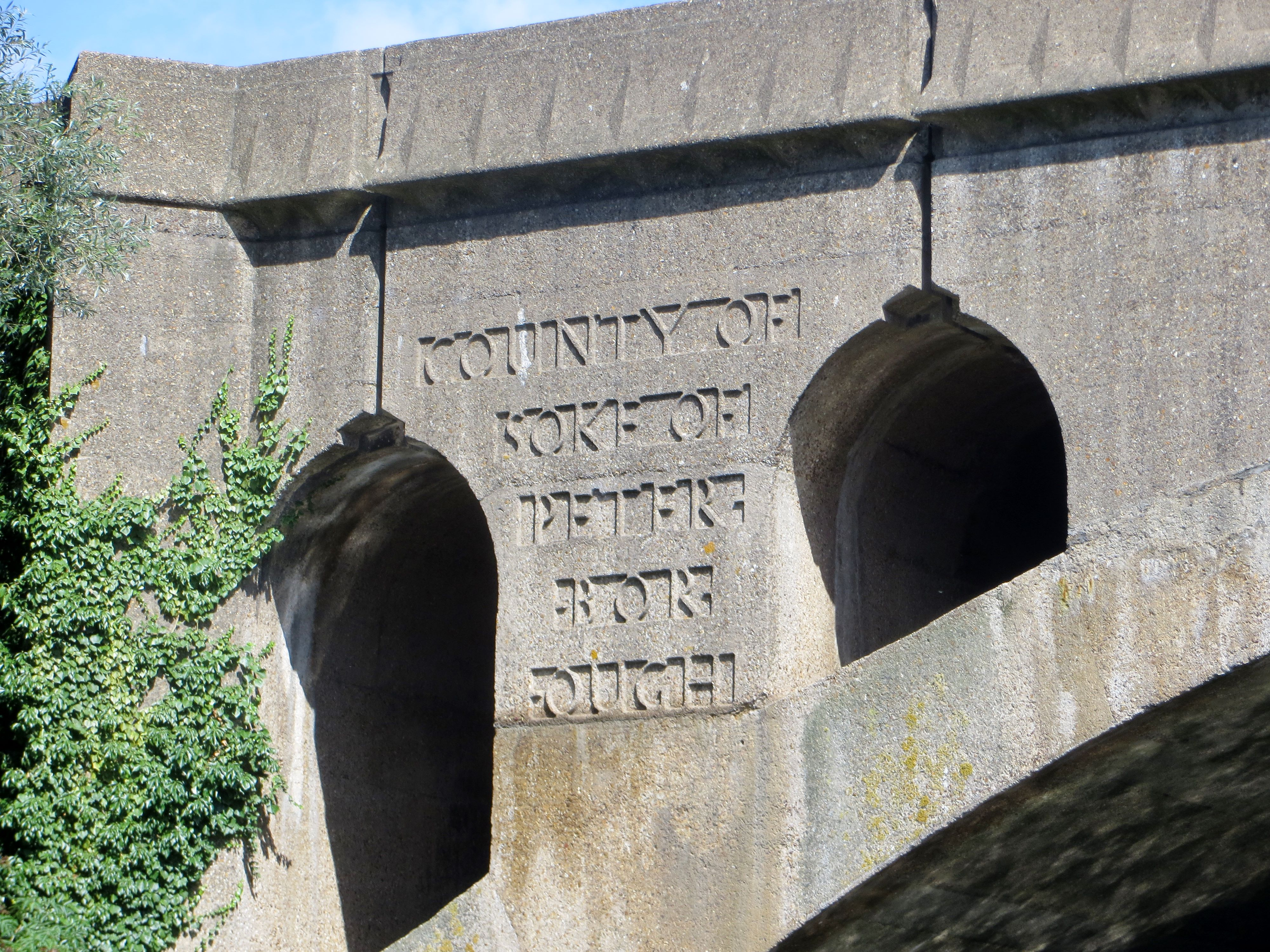 Inscription on the northern side of the A1 bridge at Wansford 'County of Soke of Peterborough' - August 2013